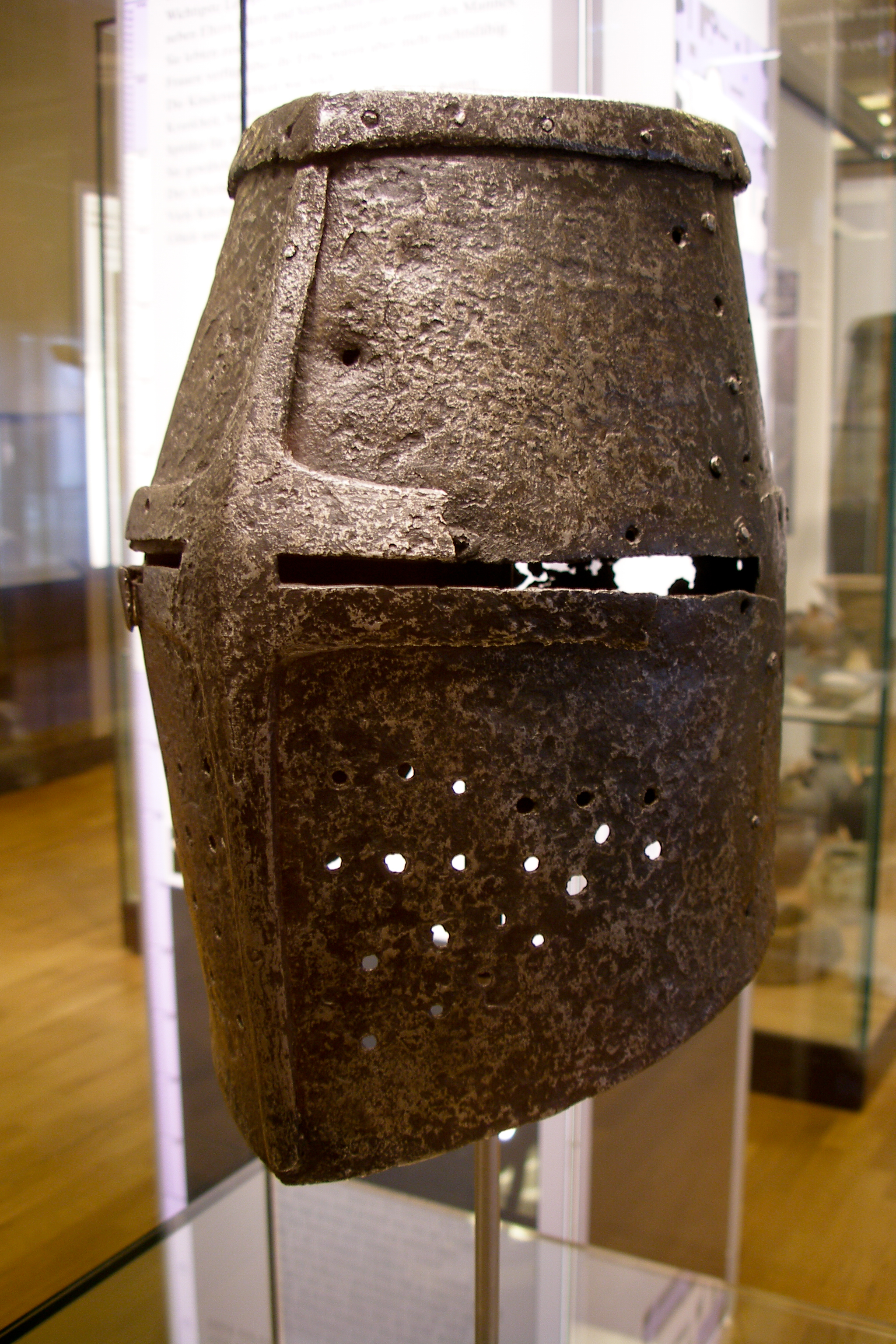 Ancient German armour helmet, exhibit at Berlin museum